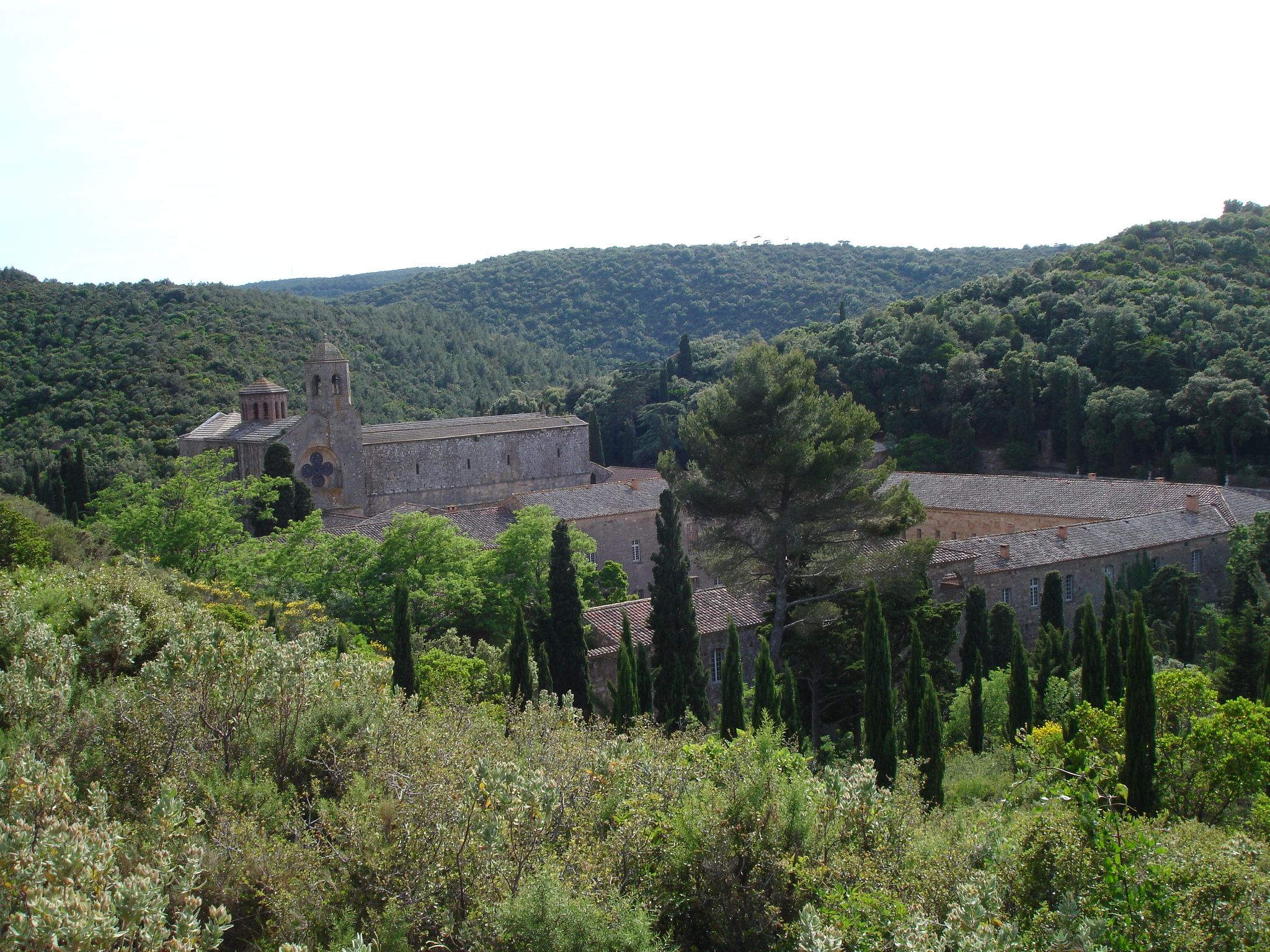 France, Aude, Fontfroide Abbey